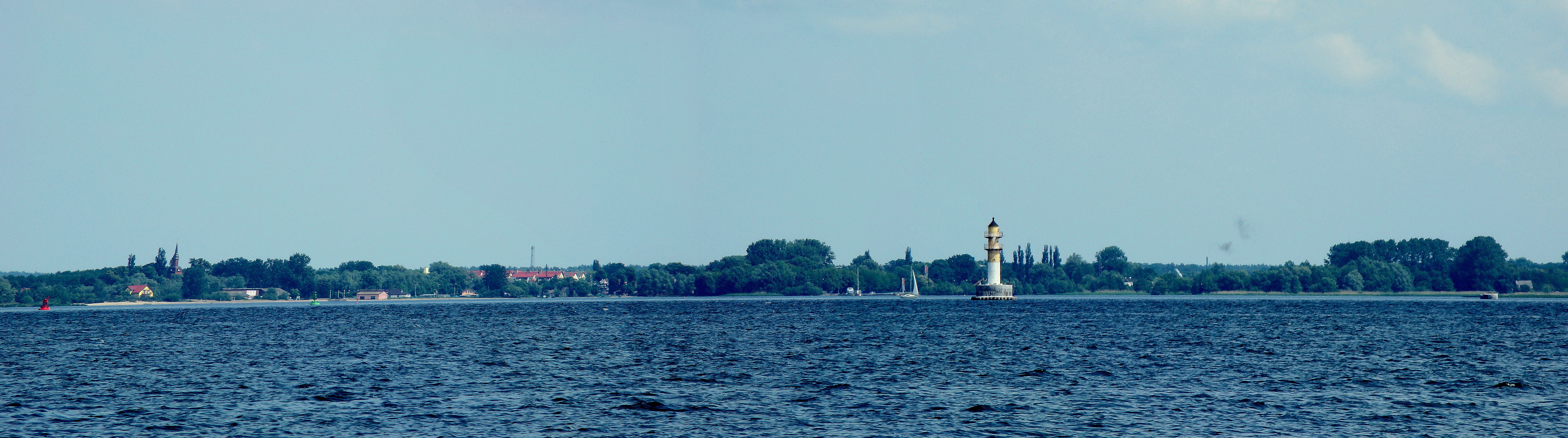 Stepnica on Szczecin Lagoon, West Pomeranian Voivodeship, Poland